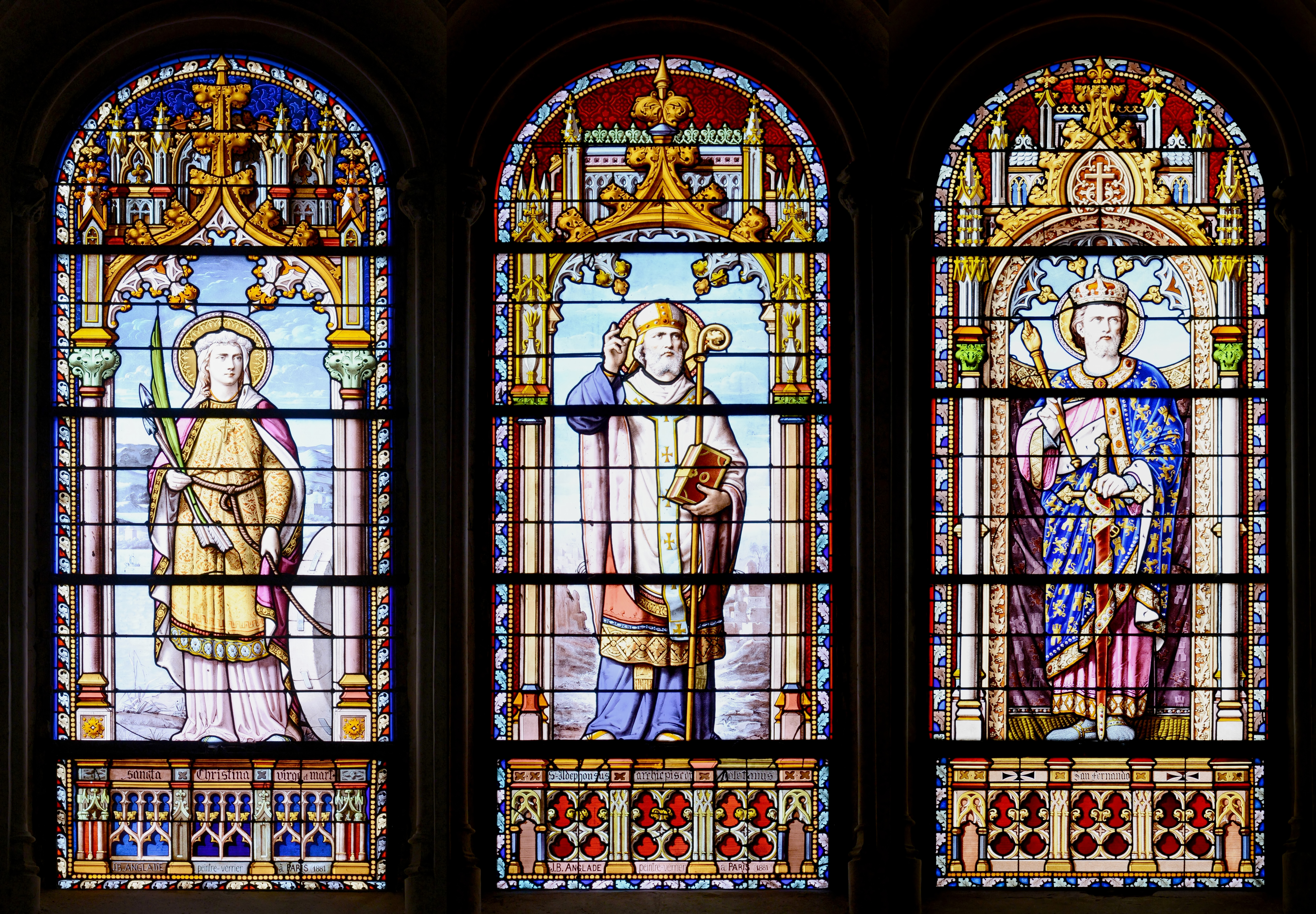 Three stained-glass windows of the Church of San Jeronimo Real, Madrid. Work by the French artist J. P. Anglade, Paris, 1881. From left to right: Saint Catherine of Alexandria; Saint Ildefonse, Arcebishop of Toledo; and Saint Fernando (Ferdinan II of Castille)